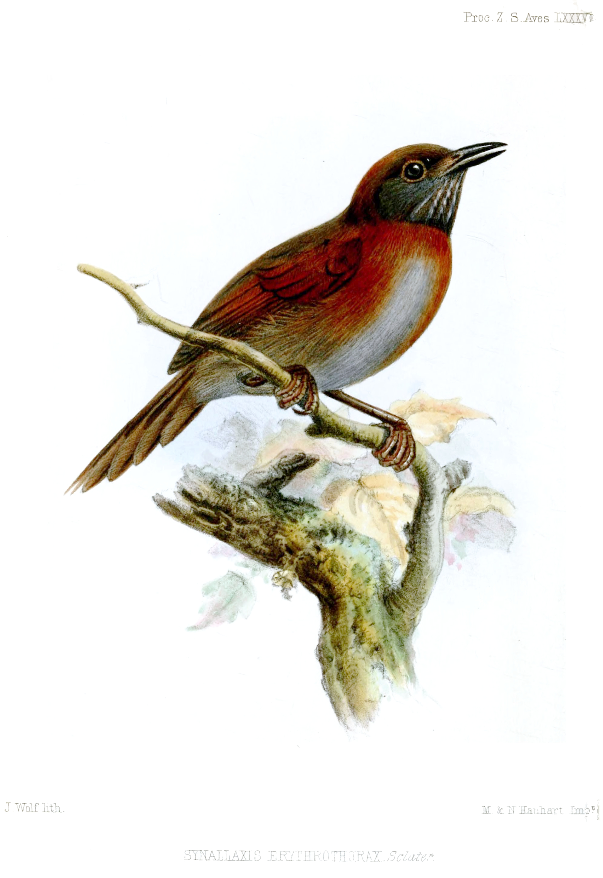 Synallaxis erythrothorax